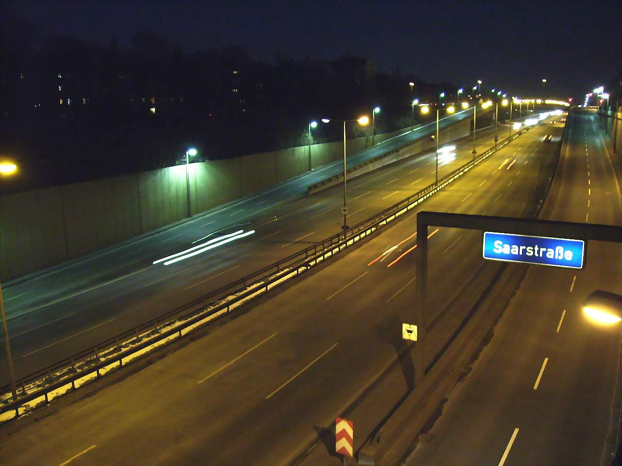 Part of Berlin motorway A103, close to the exit "Saarstraße"